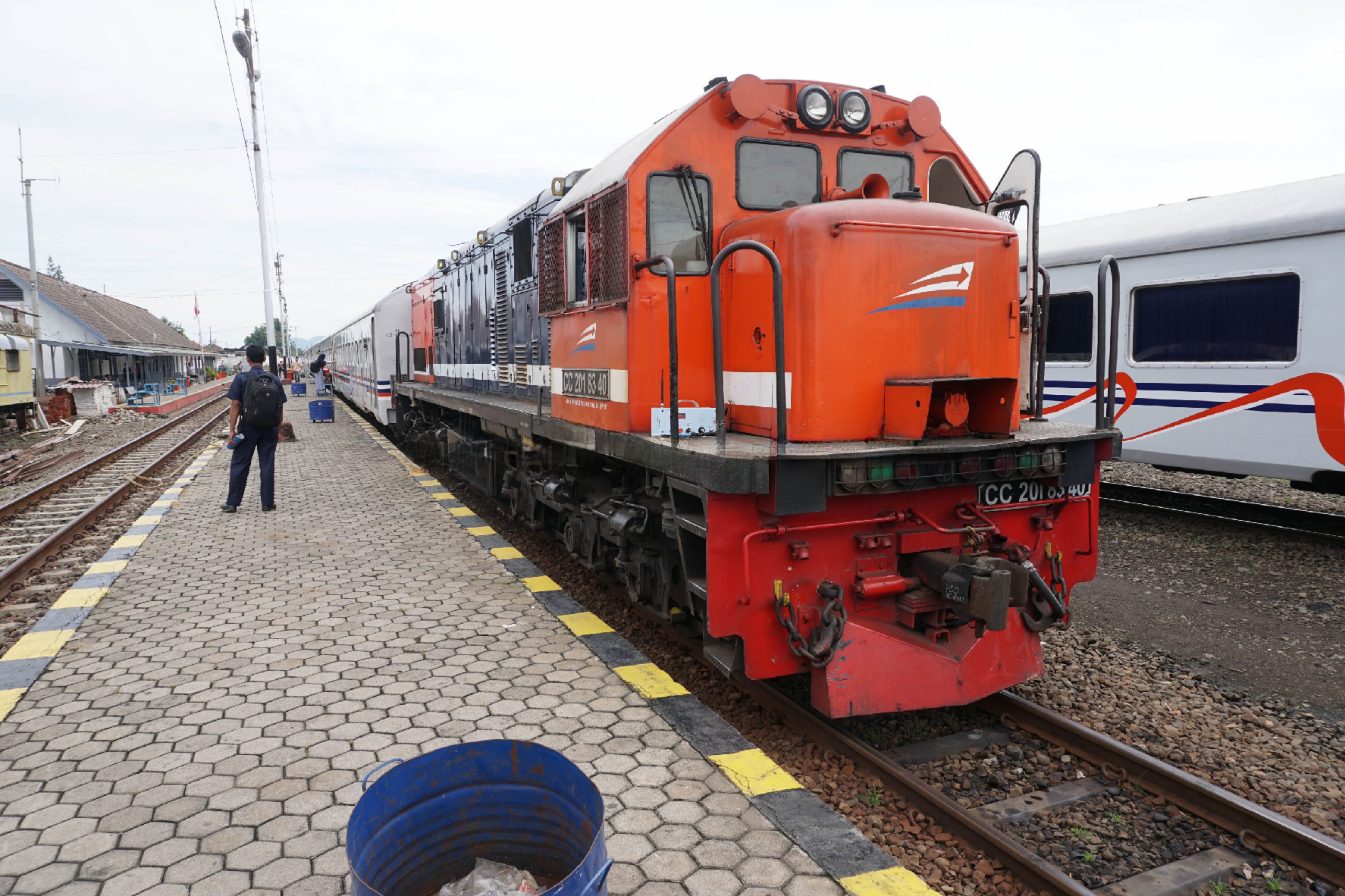 KA S6 Serelo at Lubuklinggau Station